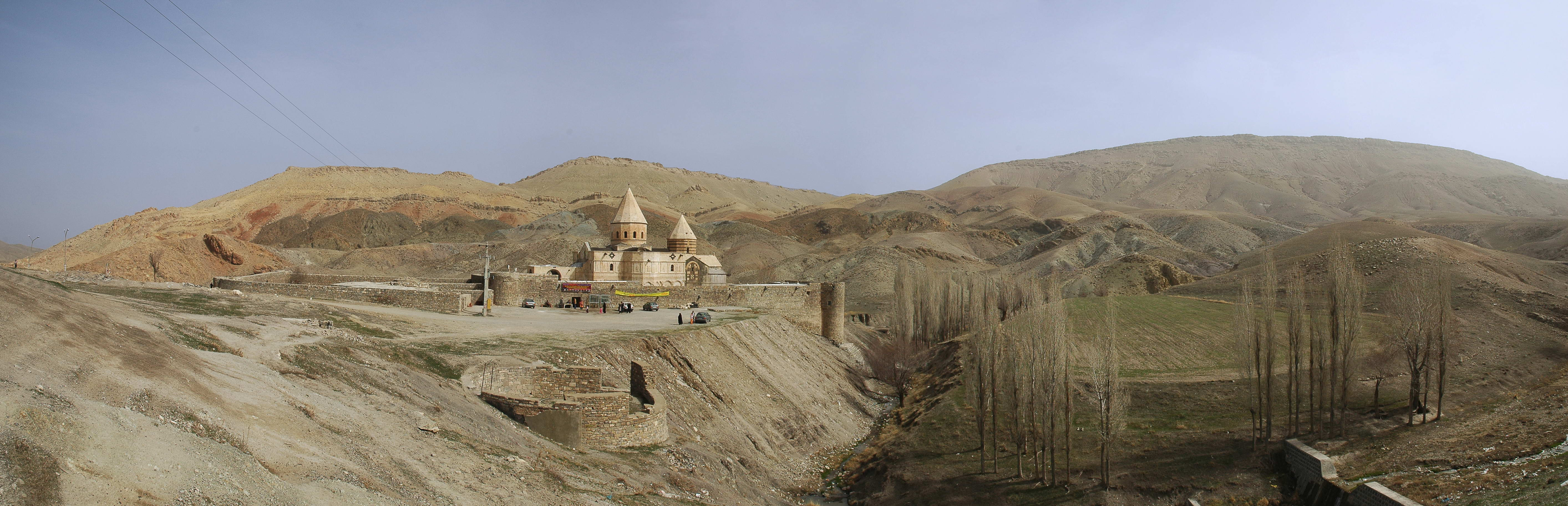 A panoramic view of the site of the Armenian Monastery of Saint Thaddeus in northwestern Iran.